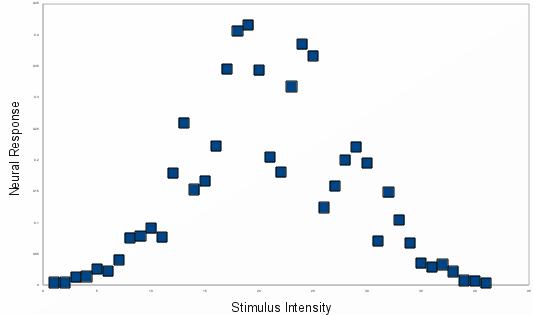 Plot of typical neural responses to a stimulus, showing the noise inherent to neural processing. Neuron responds with a Gaussian tuning curve.